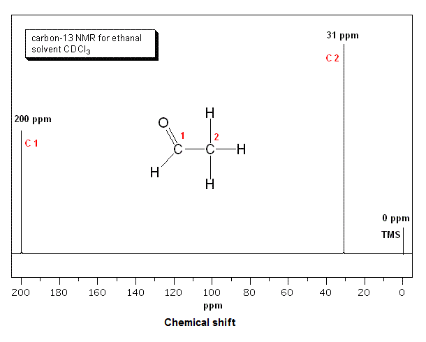 C13 NMR plot of ethanal.